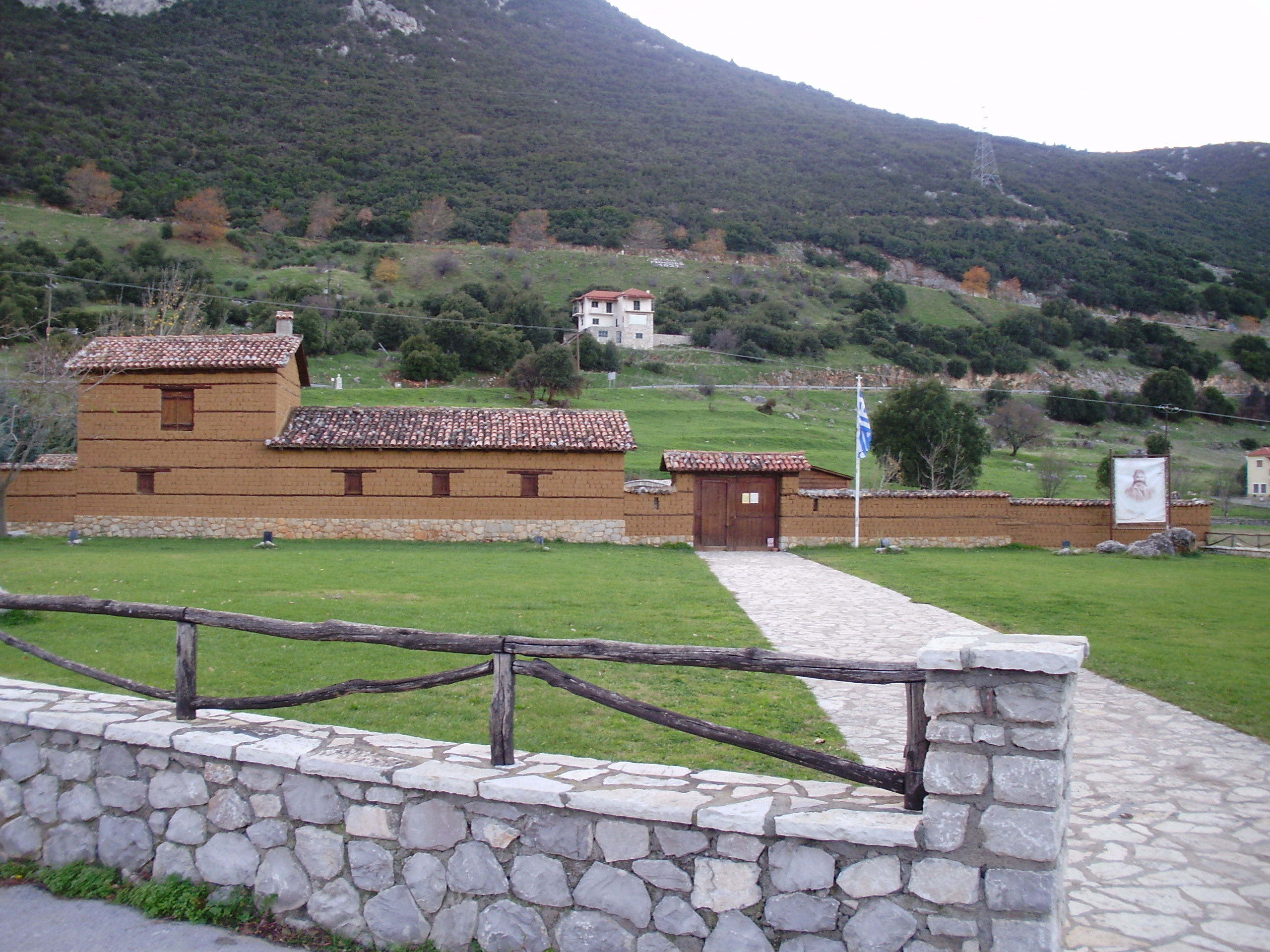 Gravia, Hani